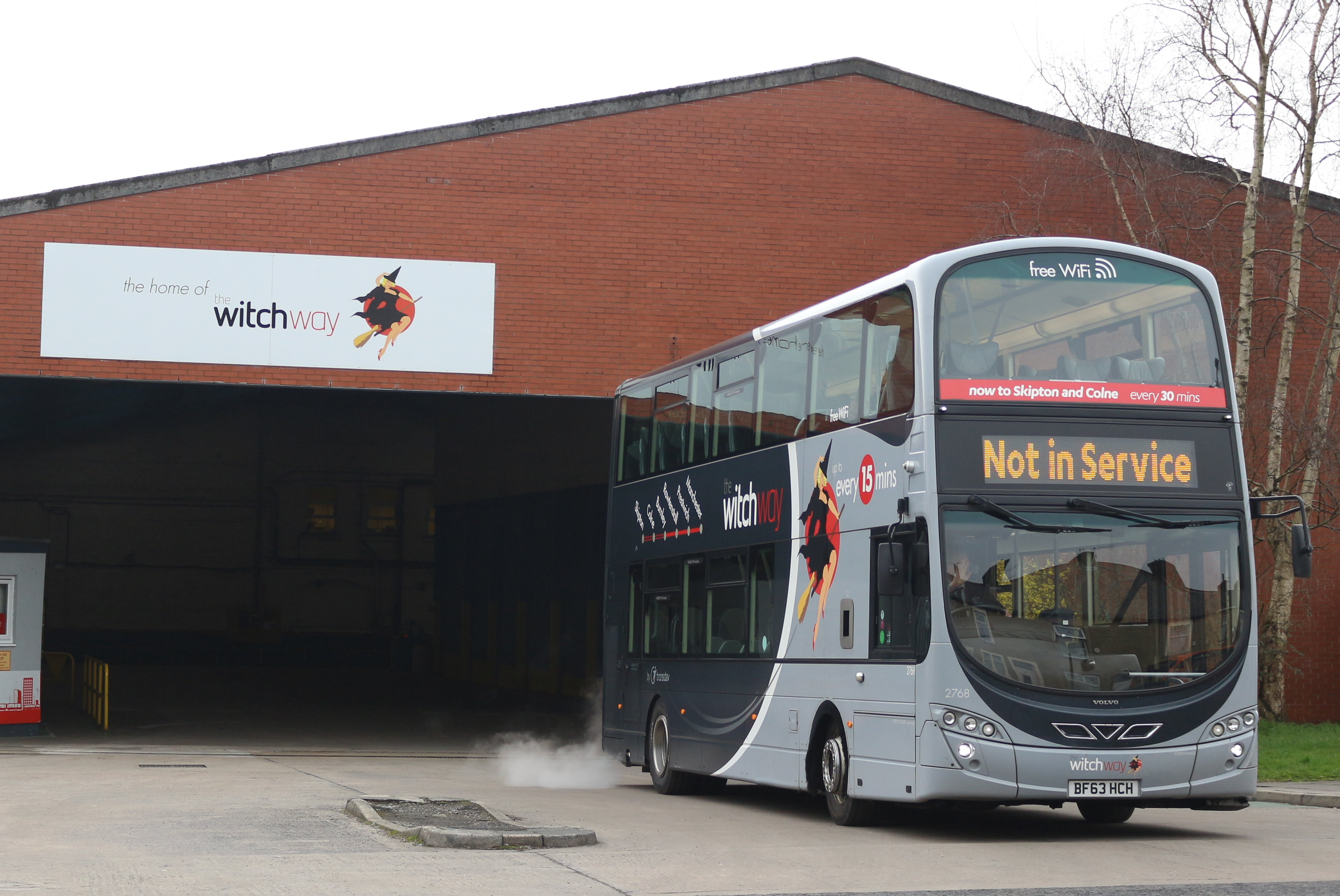 Transdev Burnley's 2768, branded for the Witch Way service X43, leaving Burnley Queensgate depot.